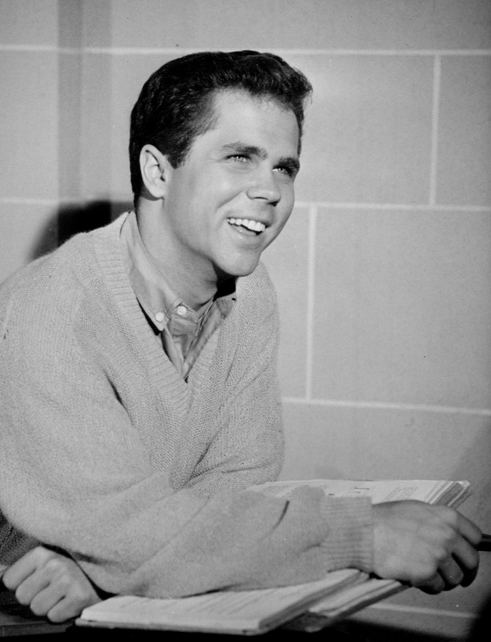 Photo of Tony Dow from a 1964 appearance on Mr. Novak.